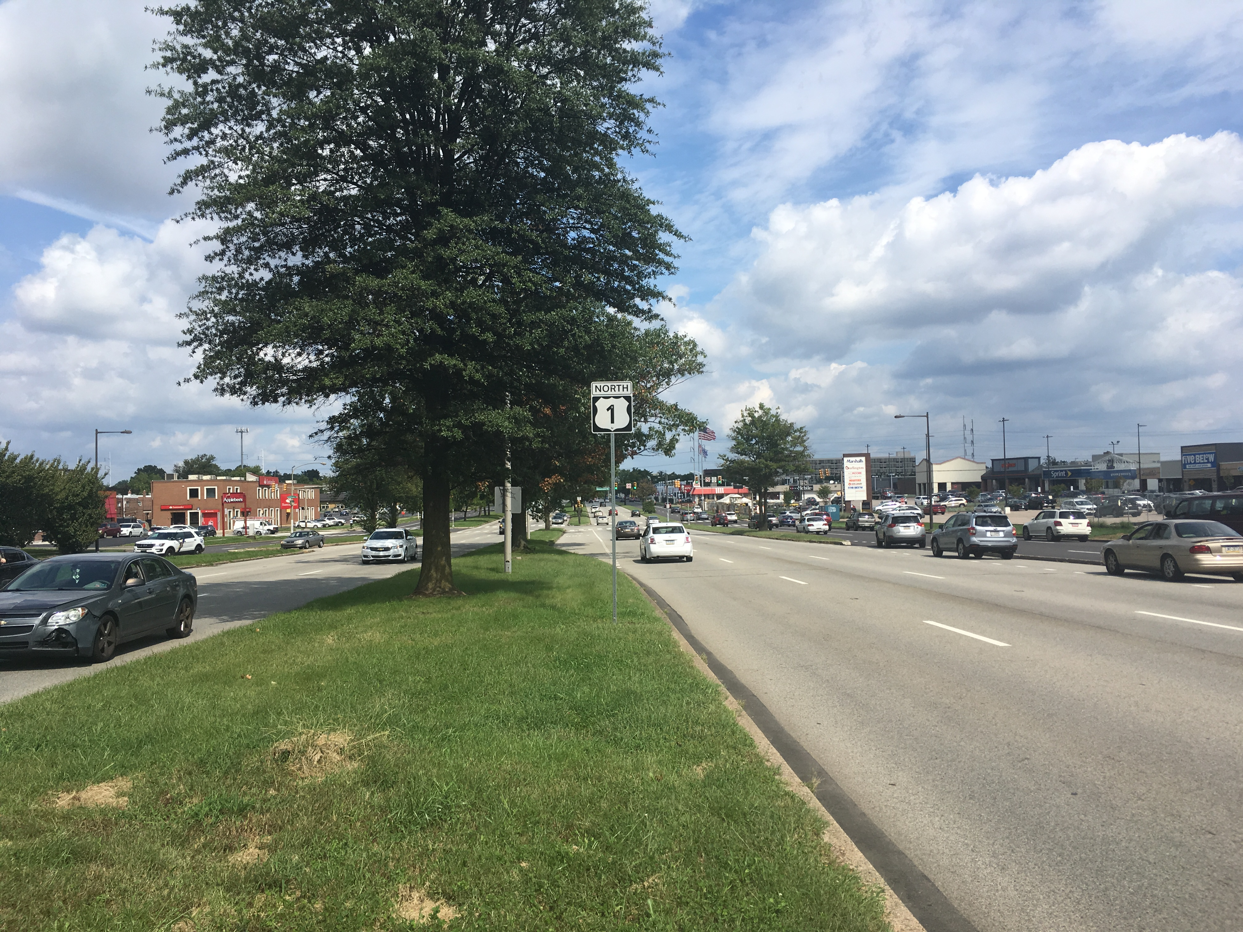 Northbound U.S. Route 1 (Roosevelt Boulevard) past the intersection with the southern terminus of Pennsylvania Route 532 (Welsh Road) in Philadelphia, Pennsylvania